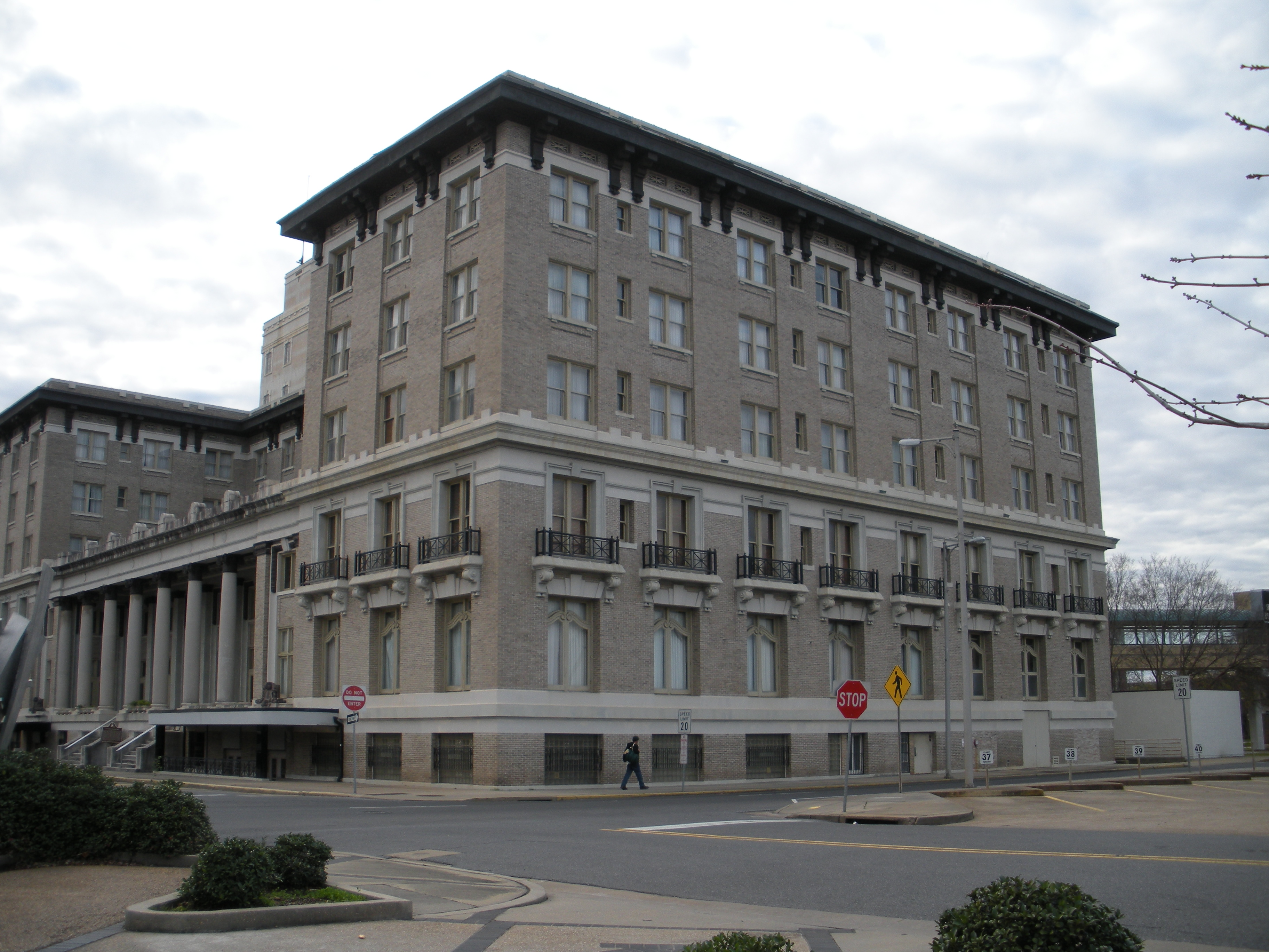 Picture of the Bentley Hotel in Alexandria, Louisiana